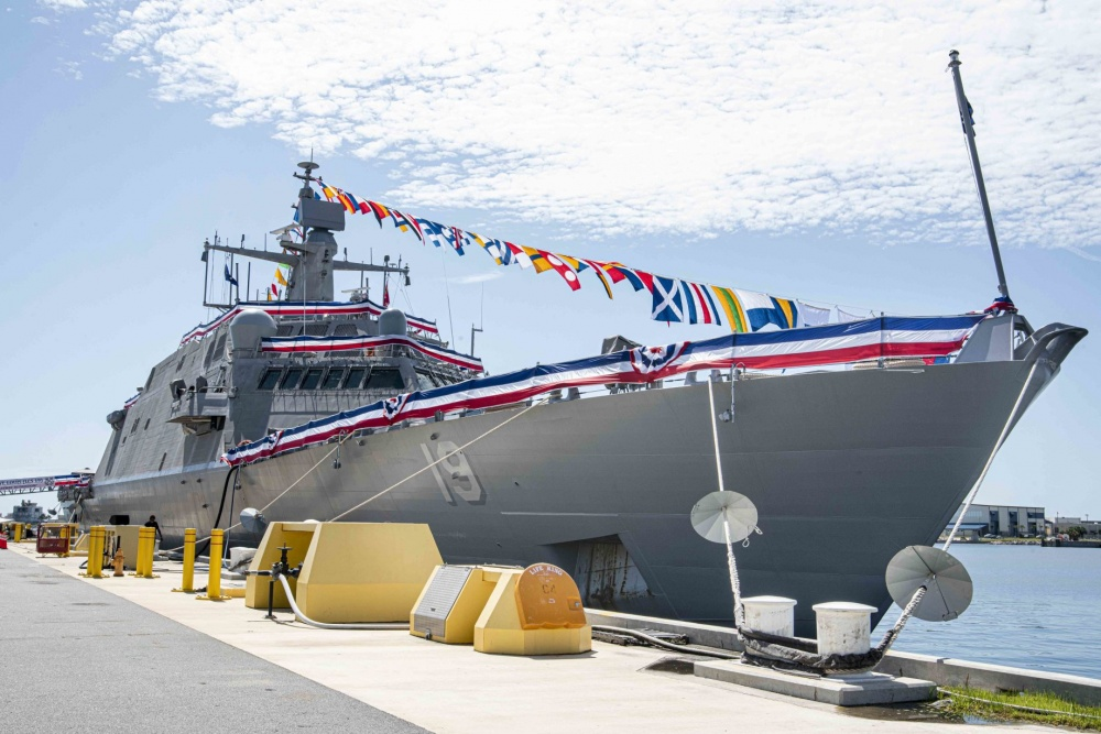 NAVAL STATION MAYPORT (Aug 8, 2020) The newly-commissioned Independence-variant littoral combat ship USS St. Louis (LCS 19) flies ceremonious flags during its first moments of life at it’s homeport, Naval Station Mayport. LCS 19, the seventh ship in naval history to be named St. Louis, will be homeported at Naval Station Mayport. (U.S. Navy photo by Mass Communication Specialist 2nd Class Alana Langdon/Released)